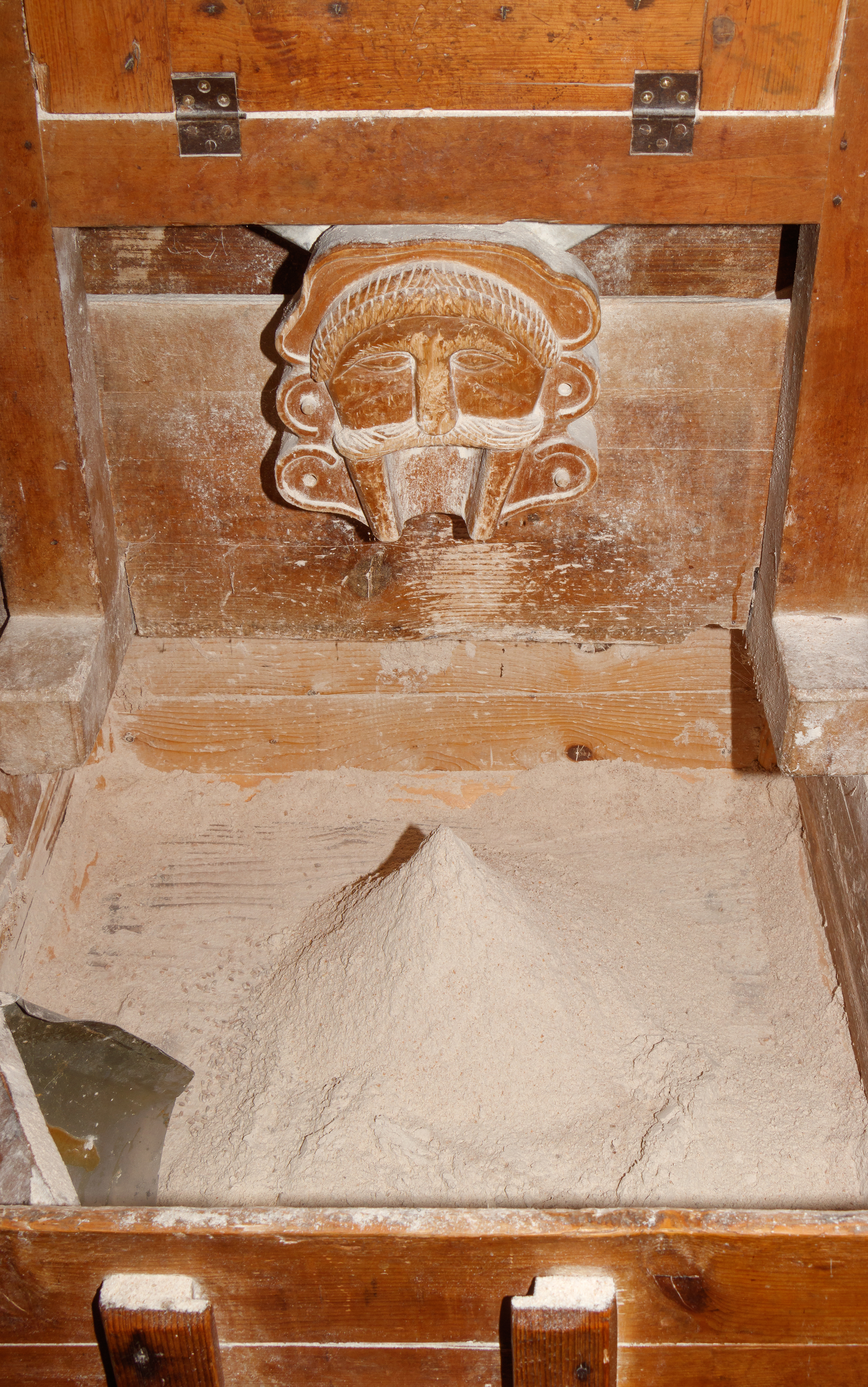 "Kleiekotzer", Vollmer's Mill, Seebach, Baden-Württemberg, Germany.